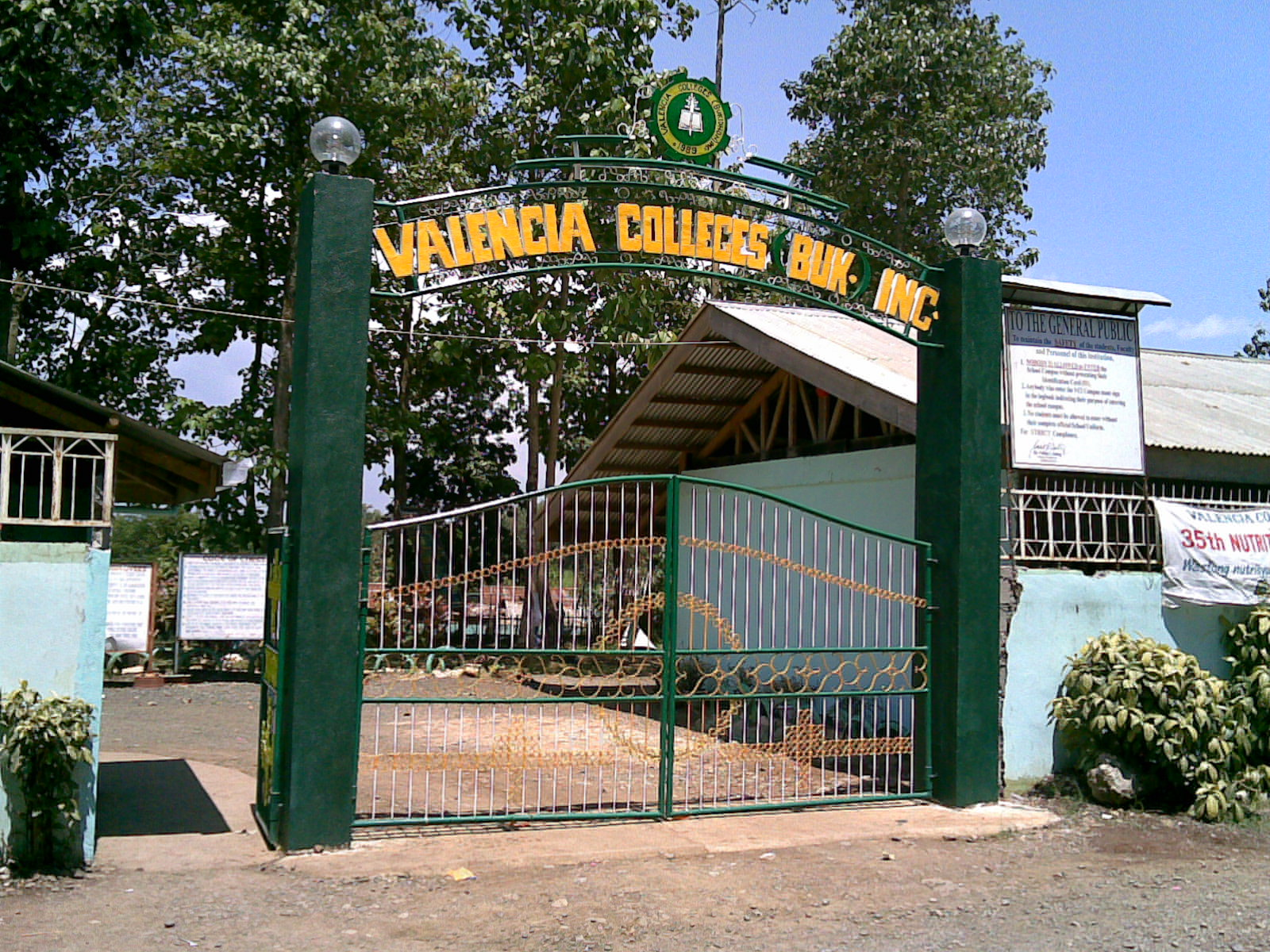 Valencia Colleges Inc. main gate